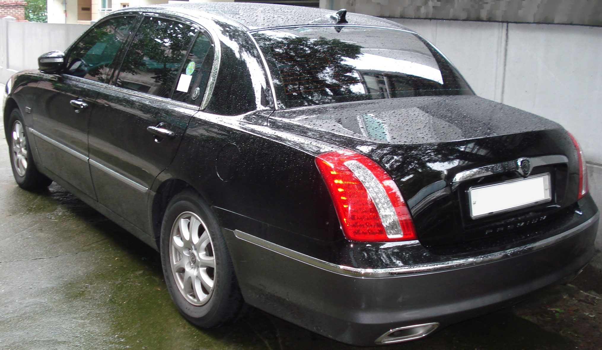 Kia Opirus Premium